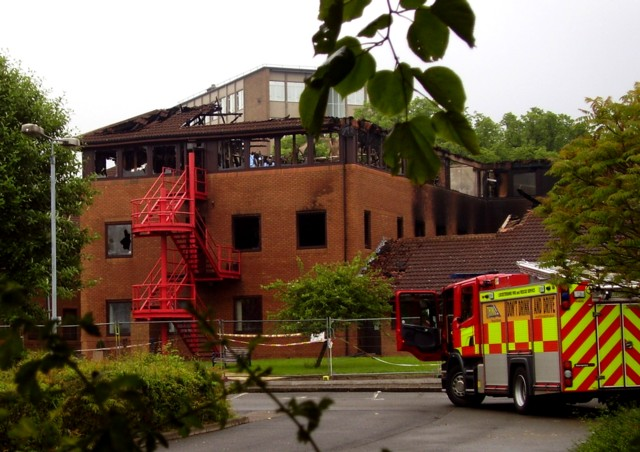 Melton Borough Council offices from the rear after the fire Two days after a massive fire the fire brigade is still present as the clear-up operation commences. The block in the background is PERA (Production Engineering Research Association).